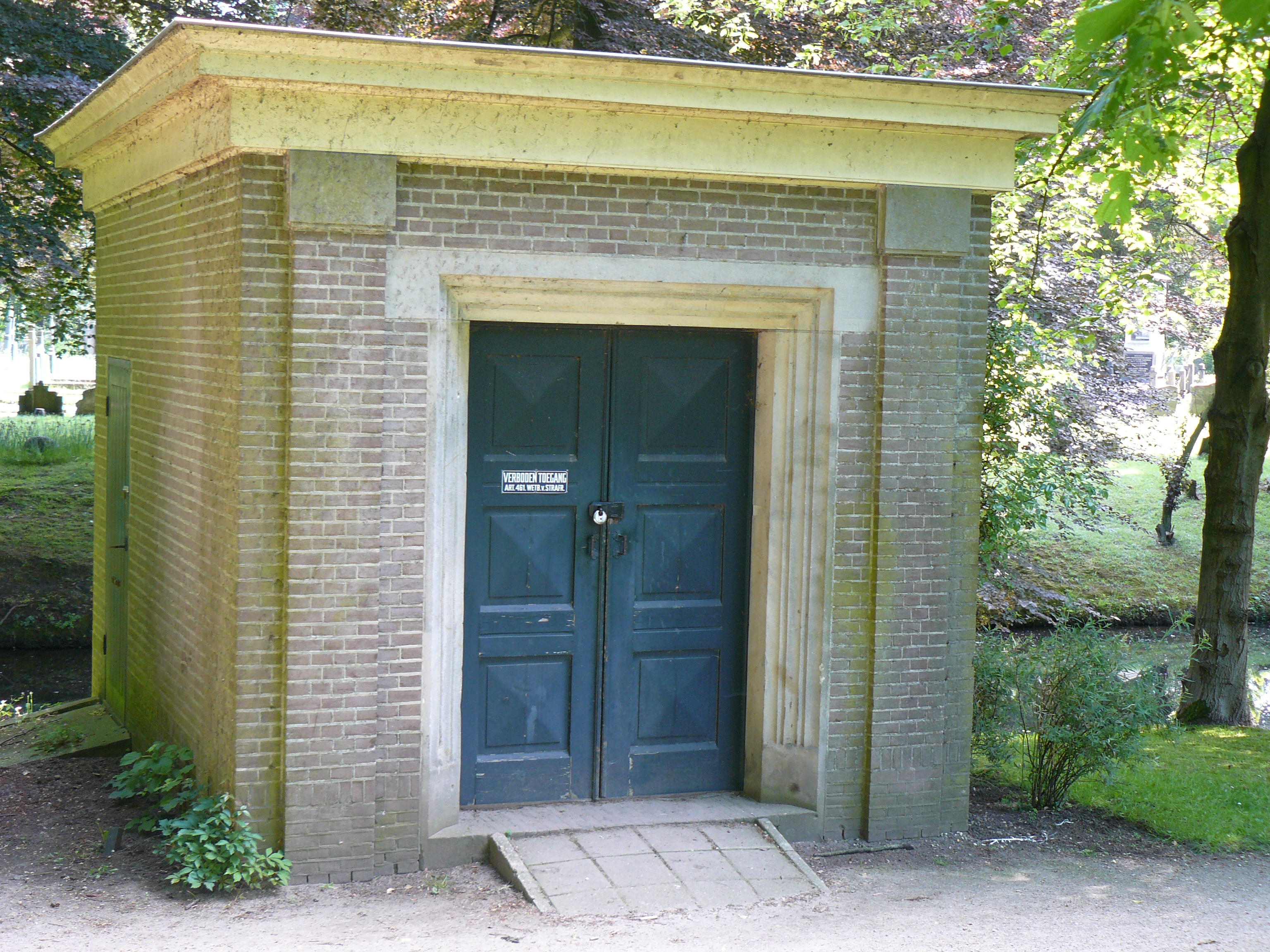 House where dead bodies were placed on a bier, on the General Cemetery Zutphen